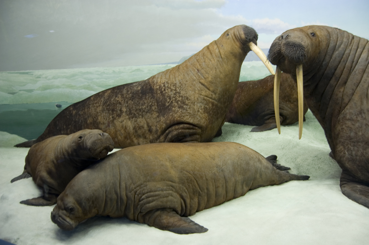 Museum of Natural History